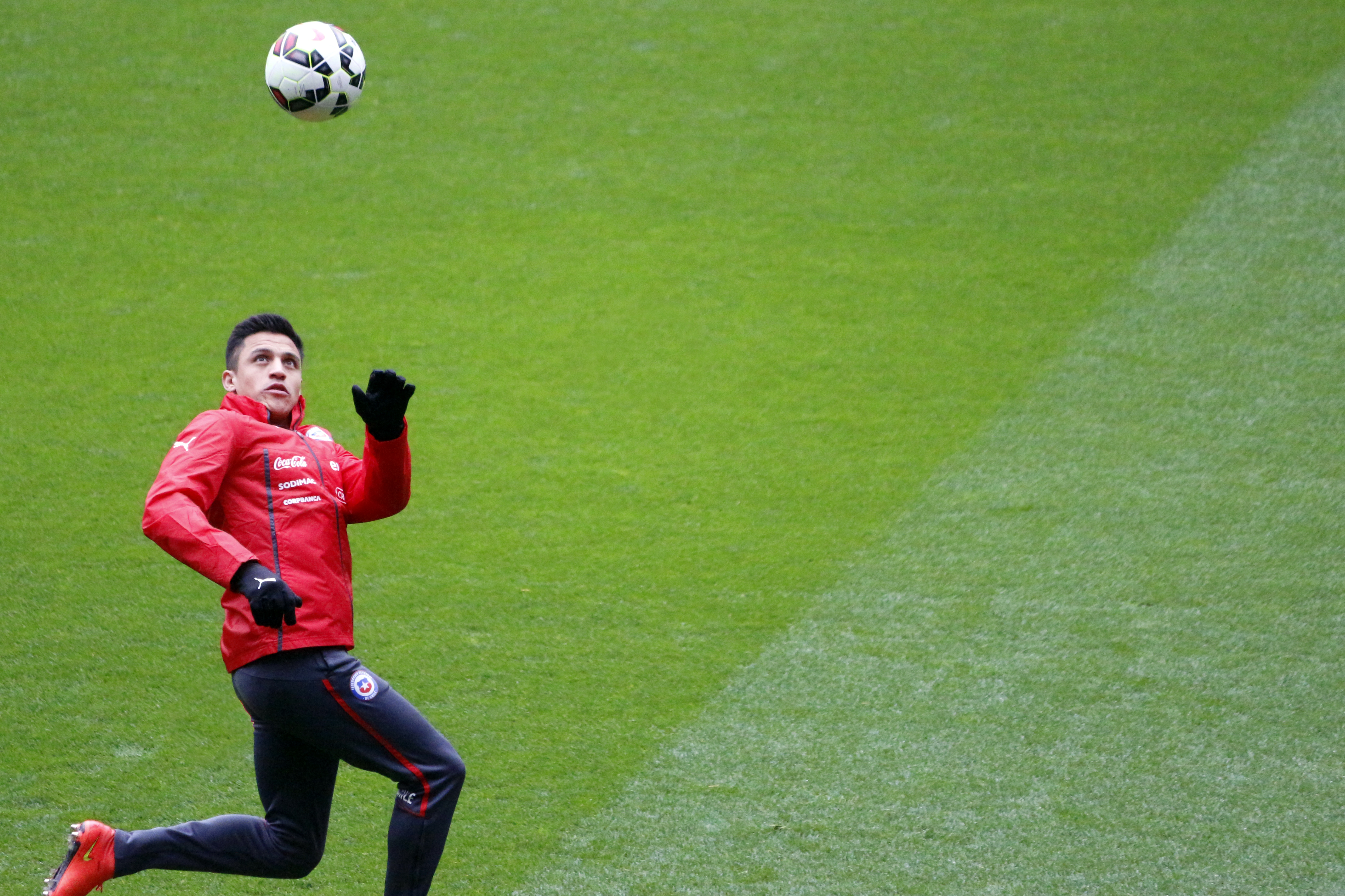 Alexis Sánchez Brazil vs Chile, International Friendly, 29th March, 2015, Emirates Stadium, London